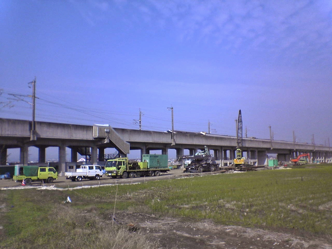 JR East 200 series Shinkansen set K25 derailed on a viaduct in Nagaoka City while on the "Toki 325" service during the 2004 Chūetsu earthquake that occurred on 23 October 2004